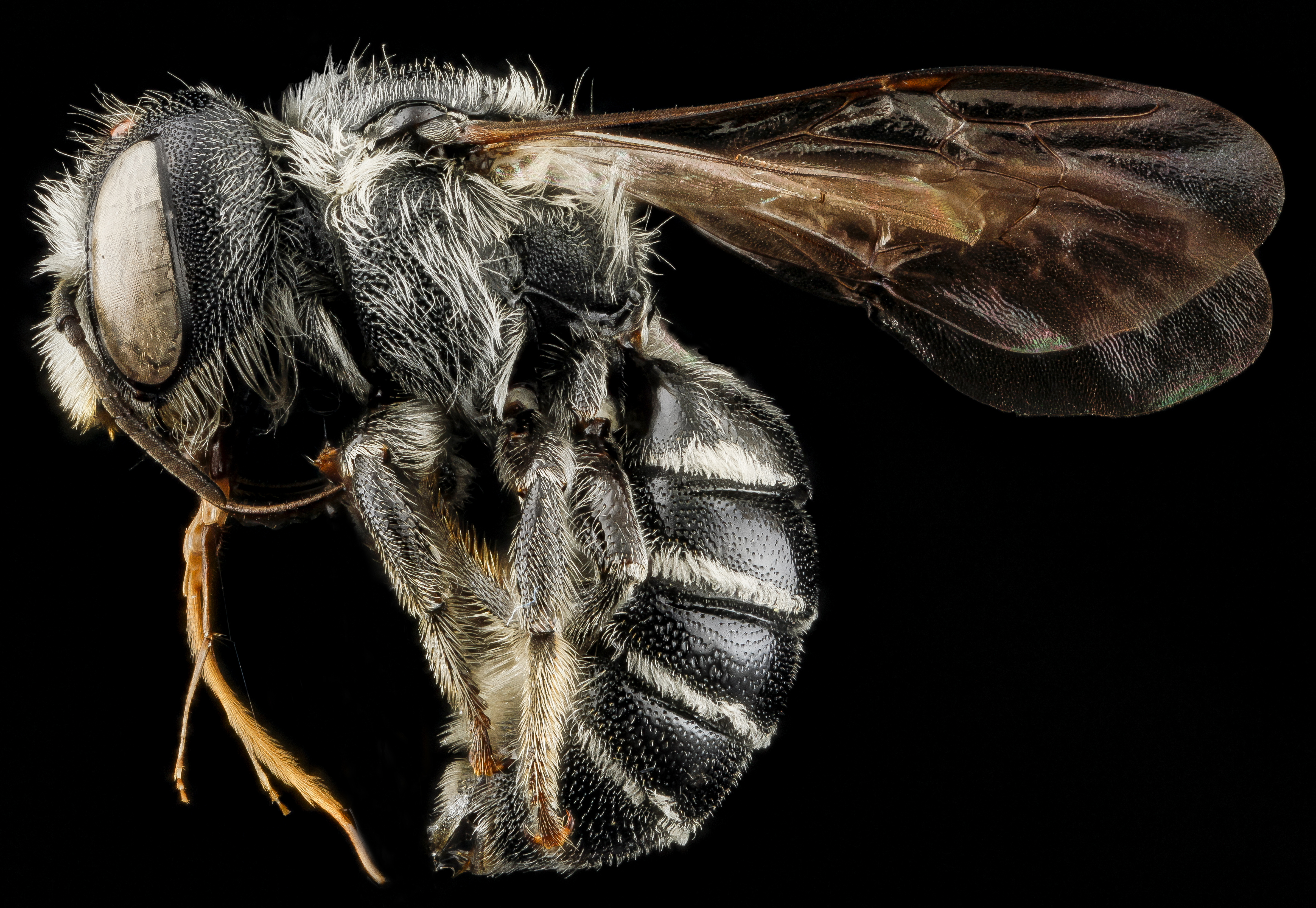 Hoplitis truncata, female. West Virginia, Hardy County.